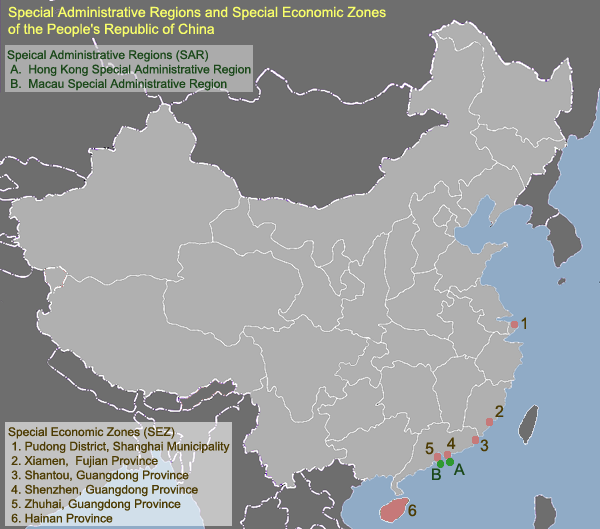 The Special Administrative Regions and the Special Economic Zones of the People's Republic of China The map was drawn by Alan Mak for Wikipedia.